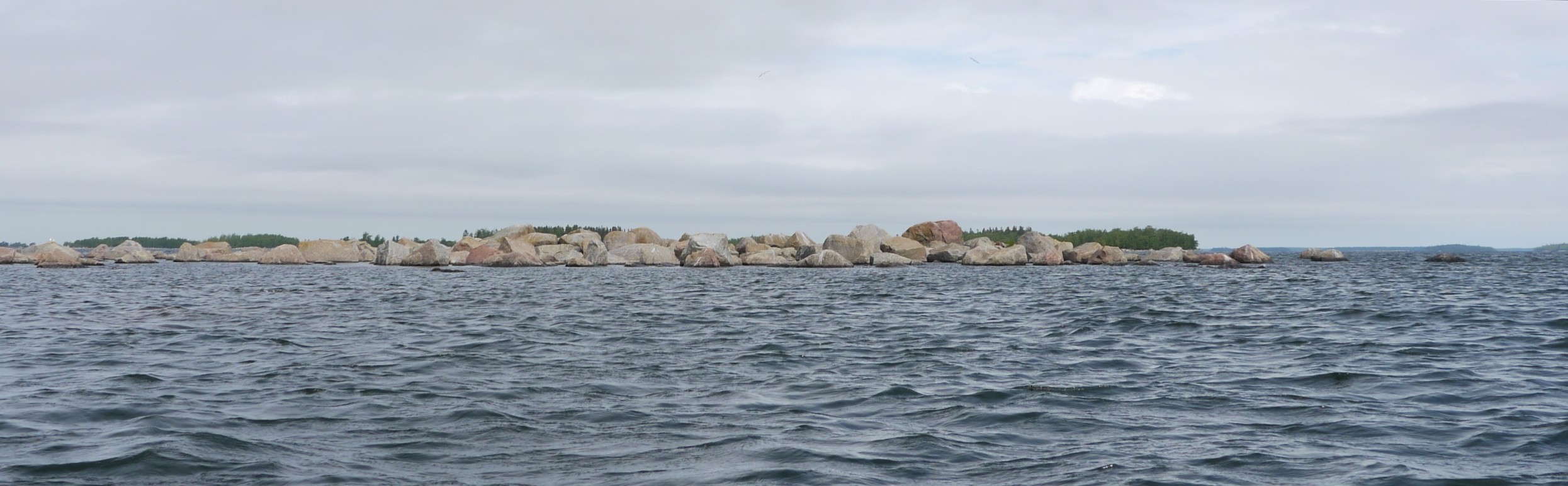 Newborn isle in Kvarken, as a result of postglacial land rise.